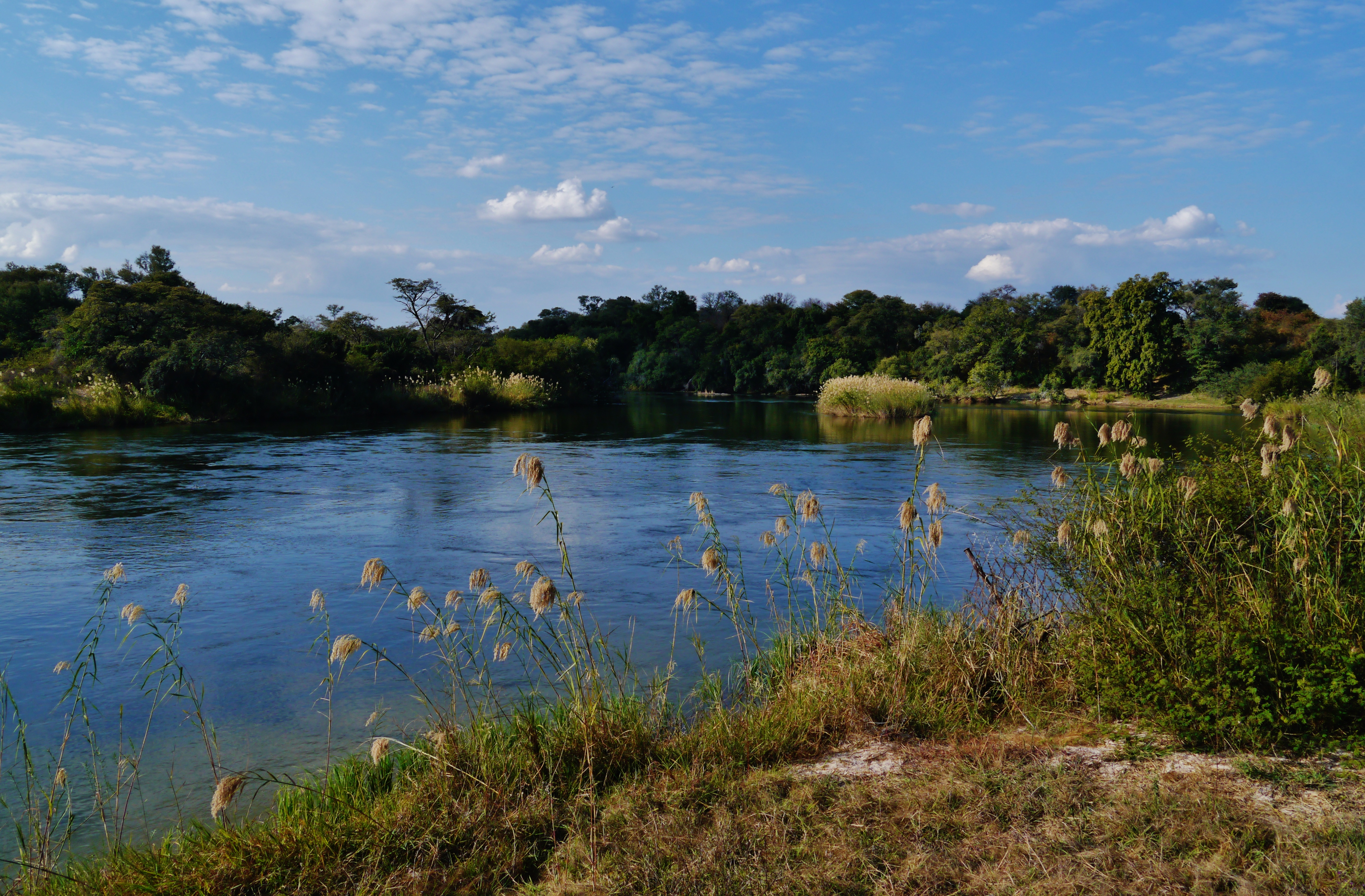 at the Okavango, Region of Kavango, Namibia